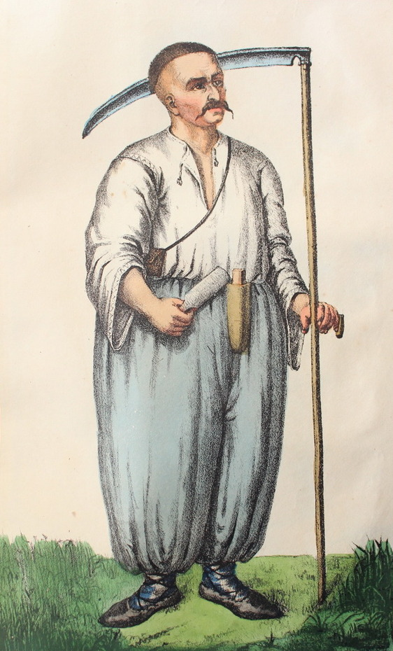 Ukrainian peasant